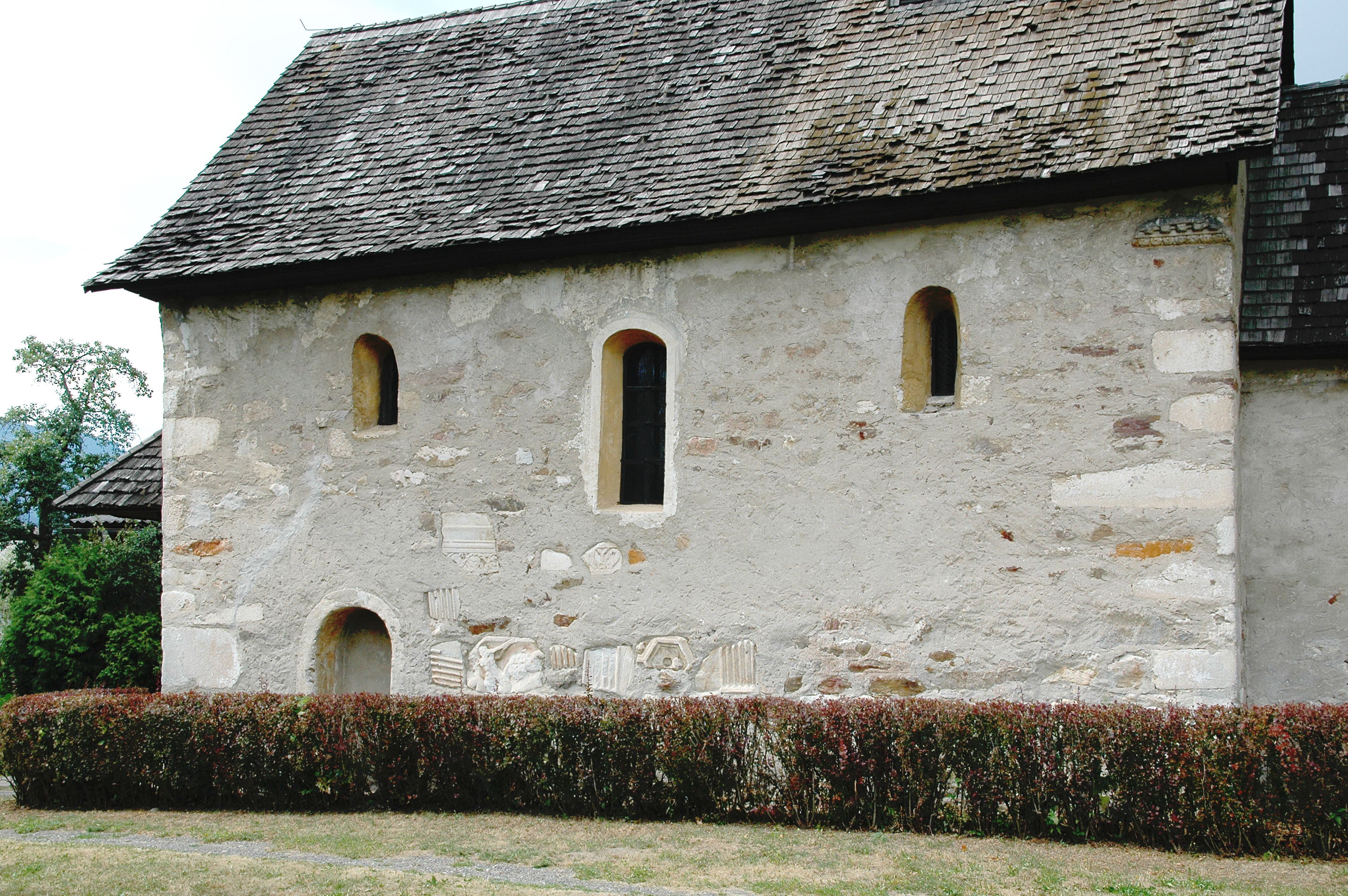 Artifacts at the south wall of the subsidiary church Saints Philip and James at Gratschach, municipality Villach, Carinthia, Austria , EU